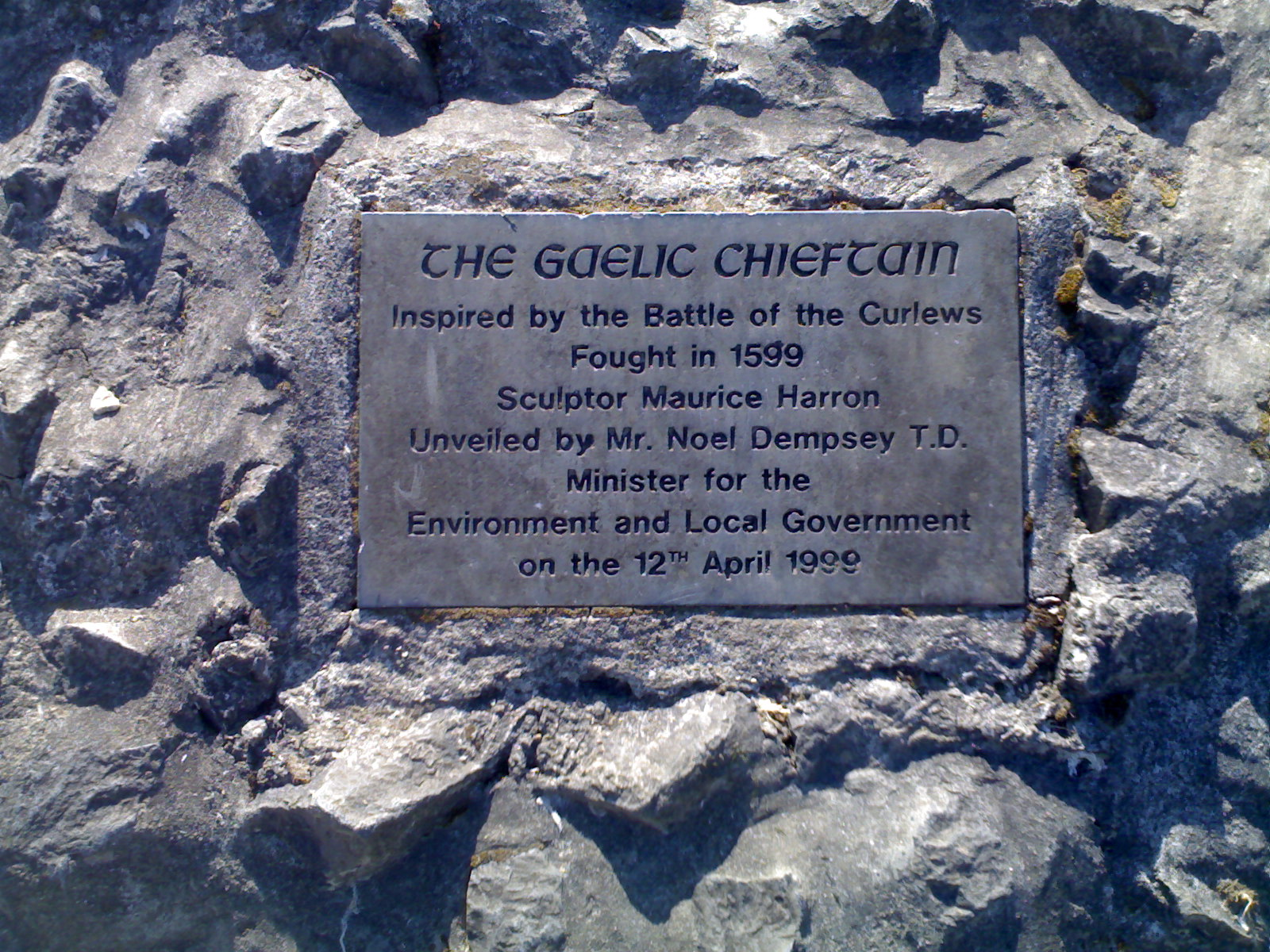 Gaelic Chieftain Plaque 12th. April 1999 Camera Phone Own work Peter Gavigan May 2007